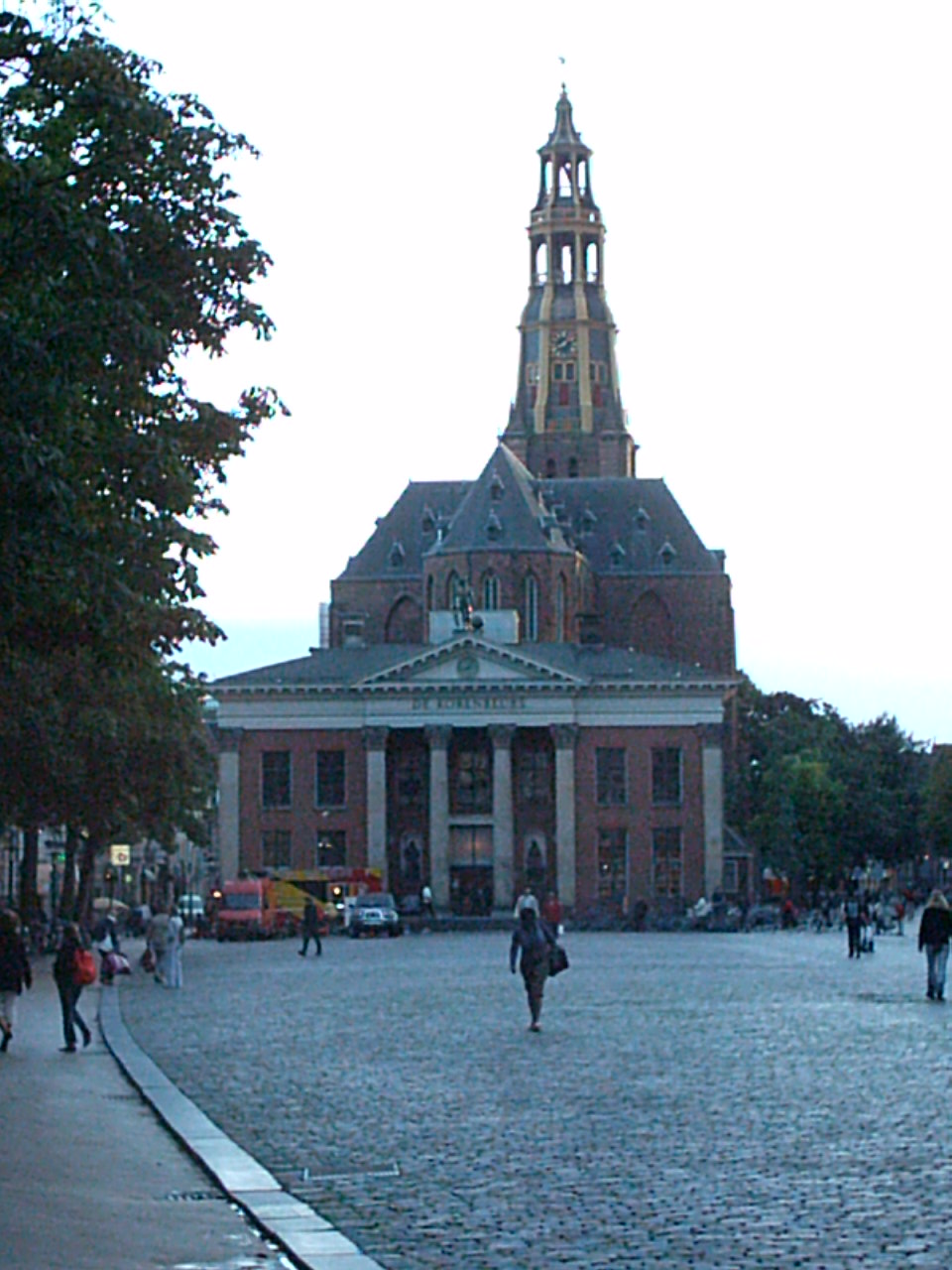 Groningen, the Netherlands. The Vismarkt looking out at the Korenbeurs and the A-church.